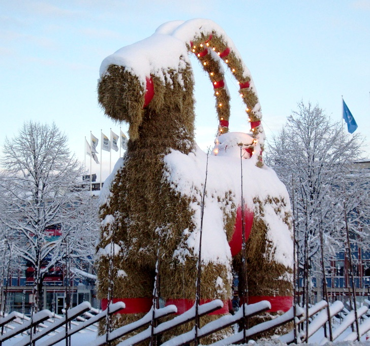 Picture of the huge straw Yule goat in Gefle Sweden. The picture was taken at noon december 21, 2009.